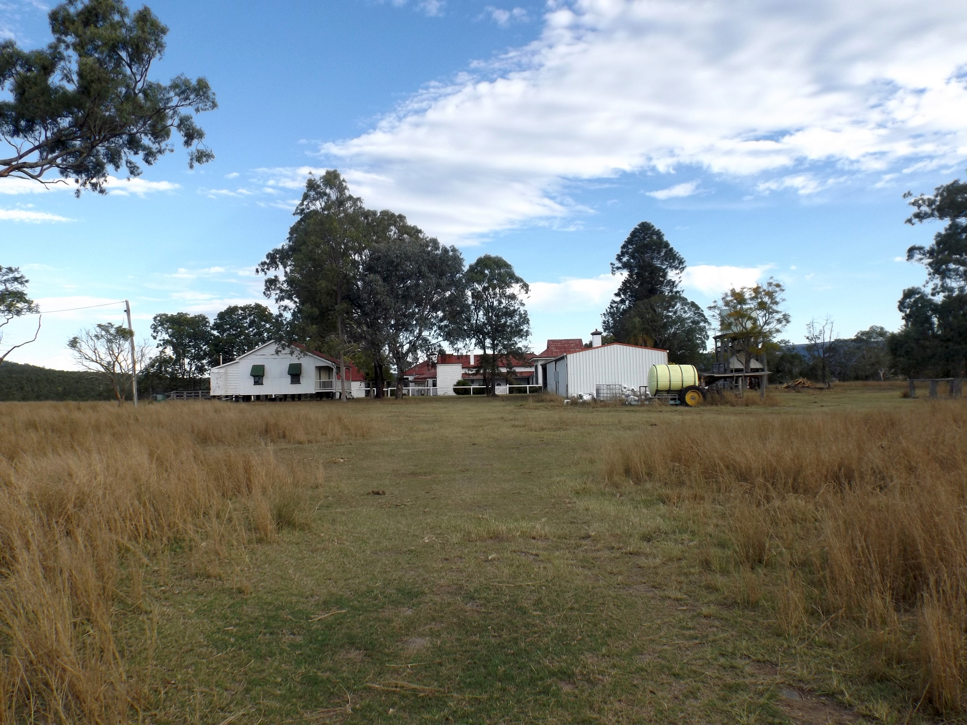 Photo of Franklyn Vale Homestead at Mount Mort, Ipswich, Queensland, Australia.